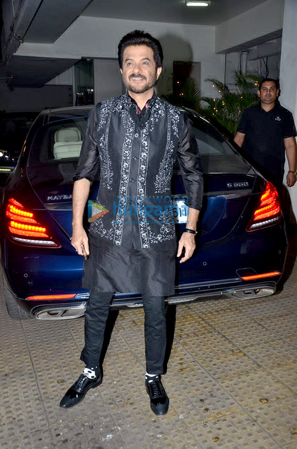 Anil Kapoor graces Vidhu Vinod Chopra’s house party